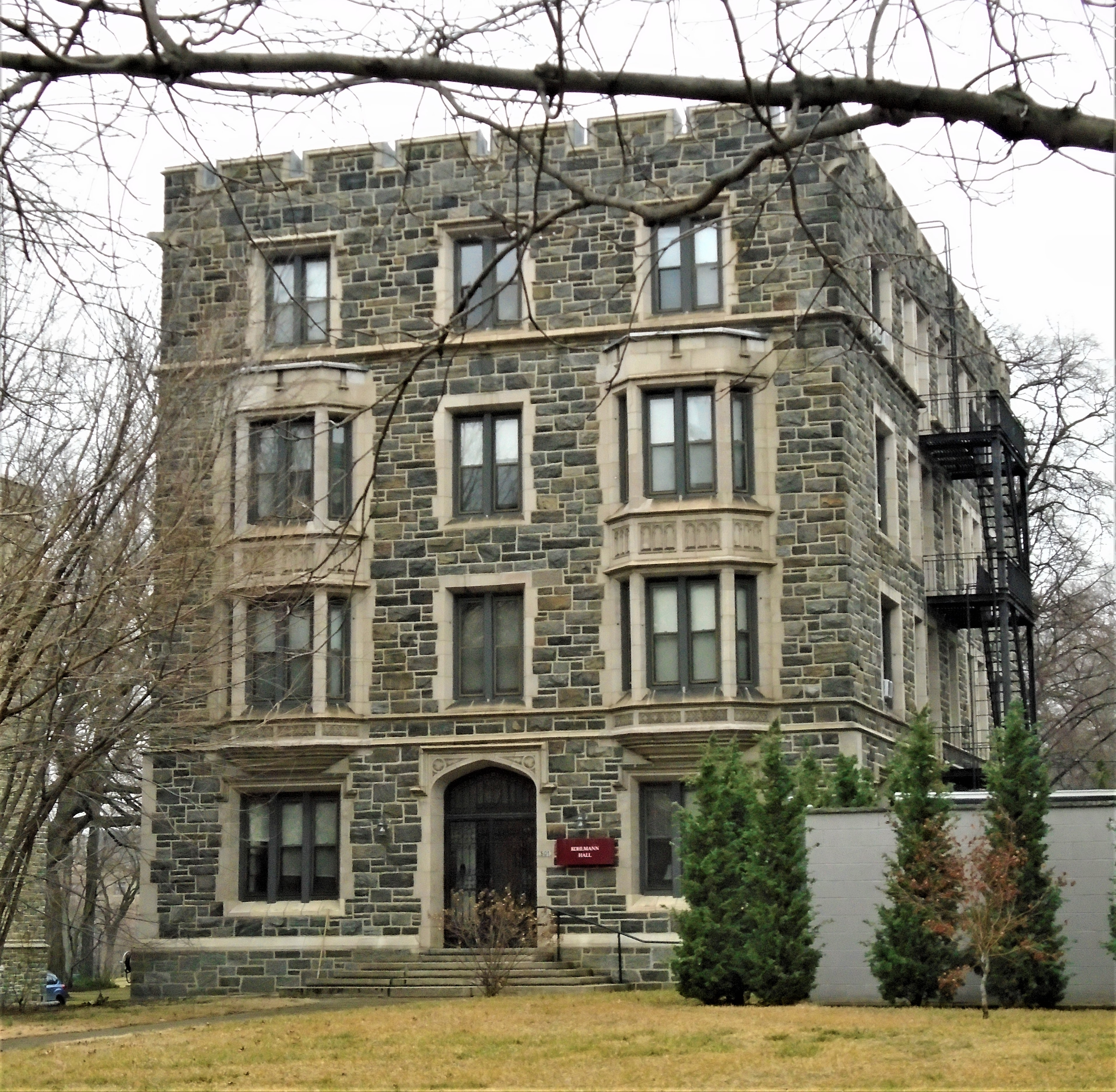 Kohlmann Hall of Fordham University, part of its Rose Hill campus in the Fordham neighborhood of The Bronx, New York City. It was built in 1920.